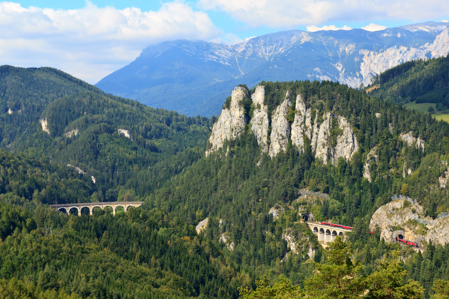 Semmering Railway: Visible (from left to right) are the Kalte Rinne-viaduct, the Polleros-tunnel beneath the Pollereswand, the Krausel-Klause-viaduct and the small Krausel tunnel, trough which a Railjet train is passing. The Rax Alp is in the background. This scenery is known as the 20-Schilling view.